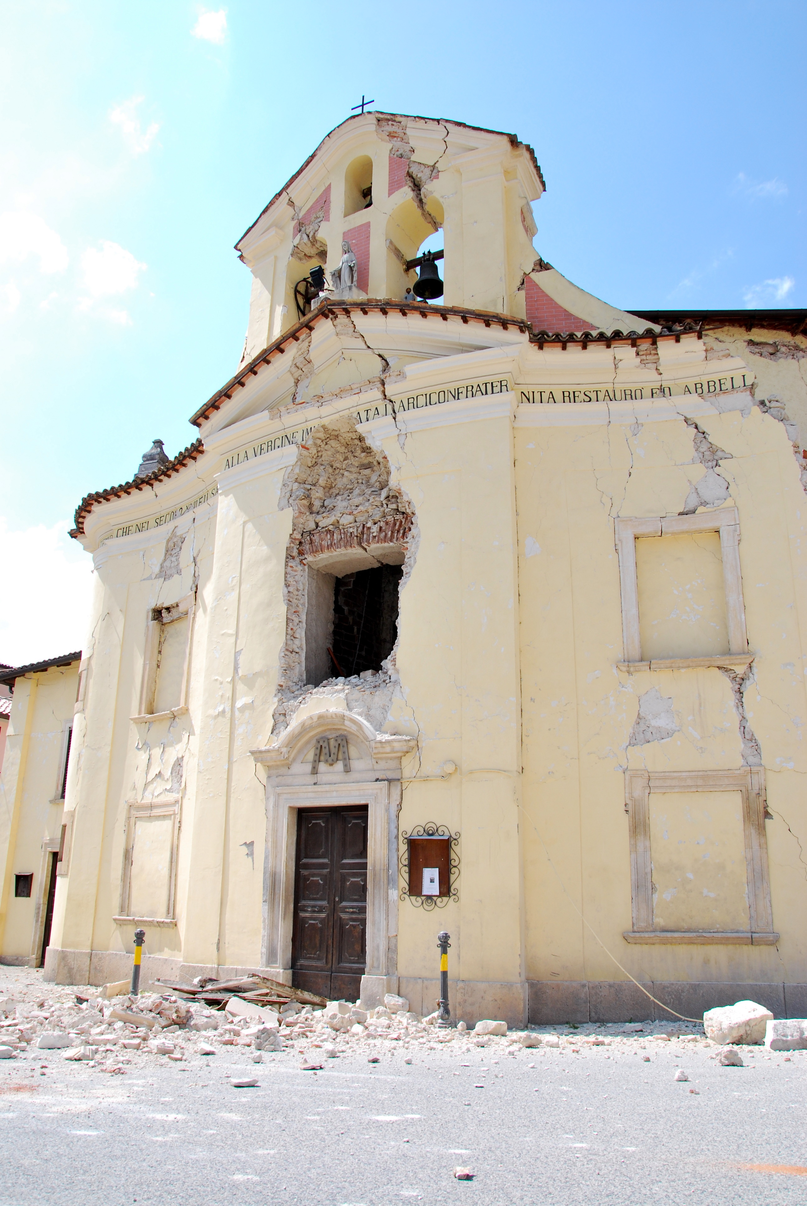 Santa Maria Church in Paganica, damaged by 2009 L'Aquila Earthquake